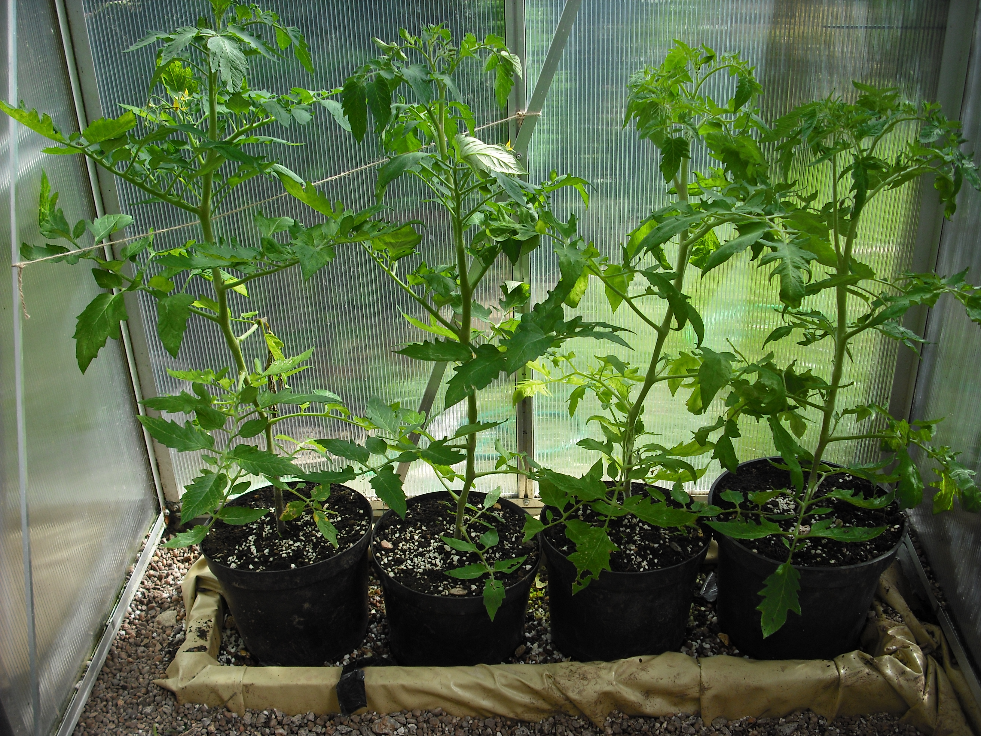 Four tomato plants being cultivated using the ring culture method. The wooden frame is lined with waterproof plastic and filled with gravel and water. The pots have no bottom, so roots from the tomatoes penetrate into the watery gravel, whereas other roots remain in the soil to gain nutrients.